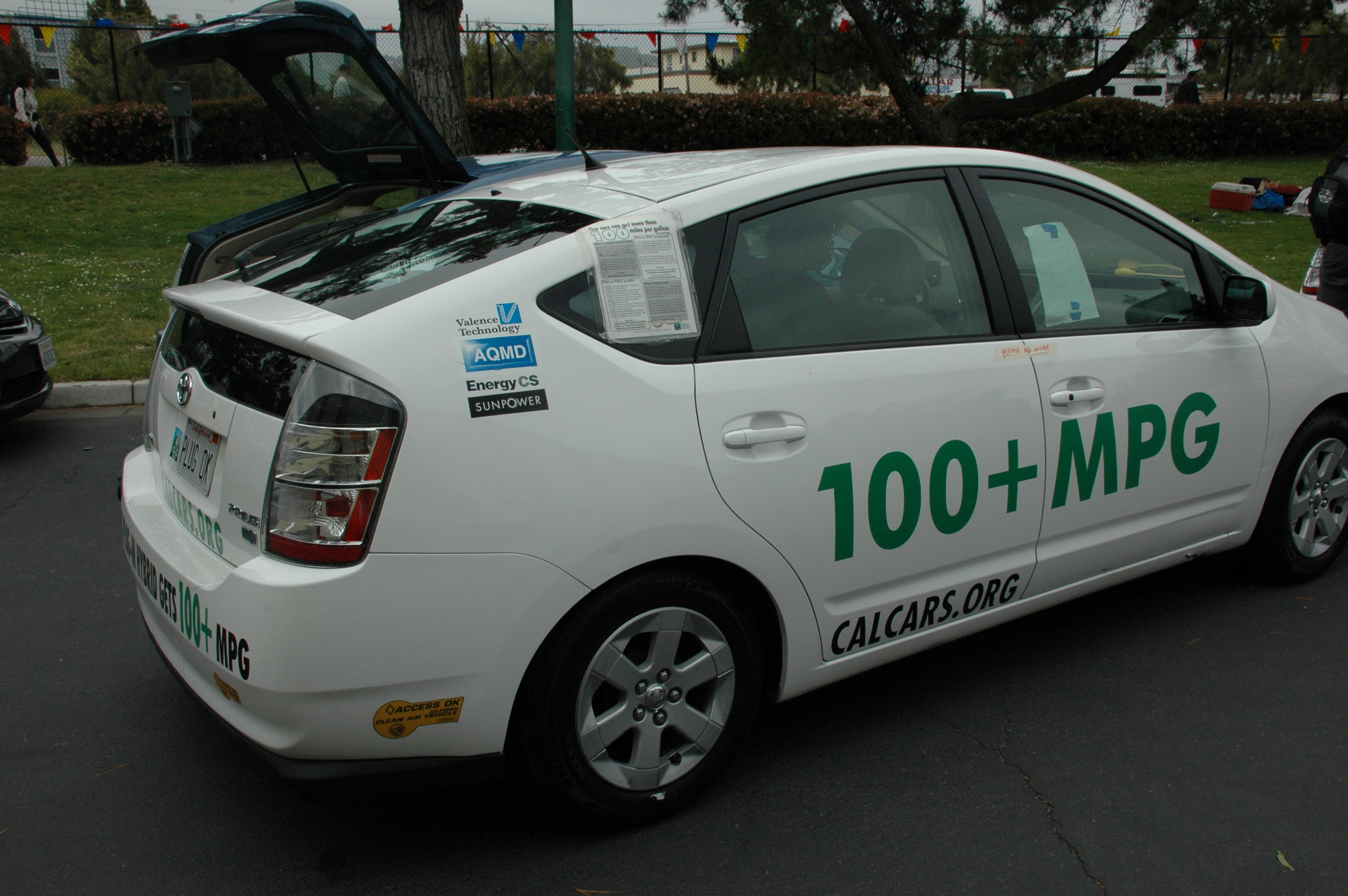 Maker Faire 2008, San Mateo - A plug-in Prius